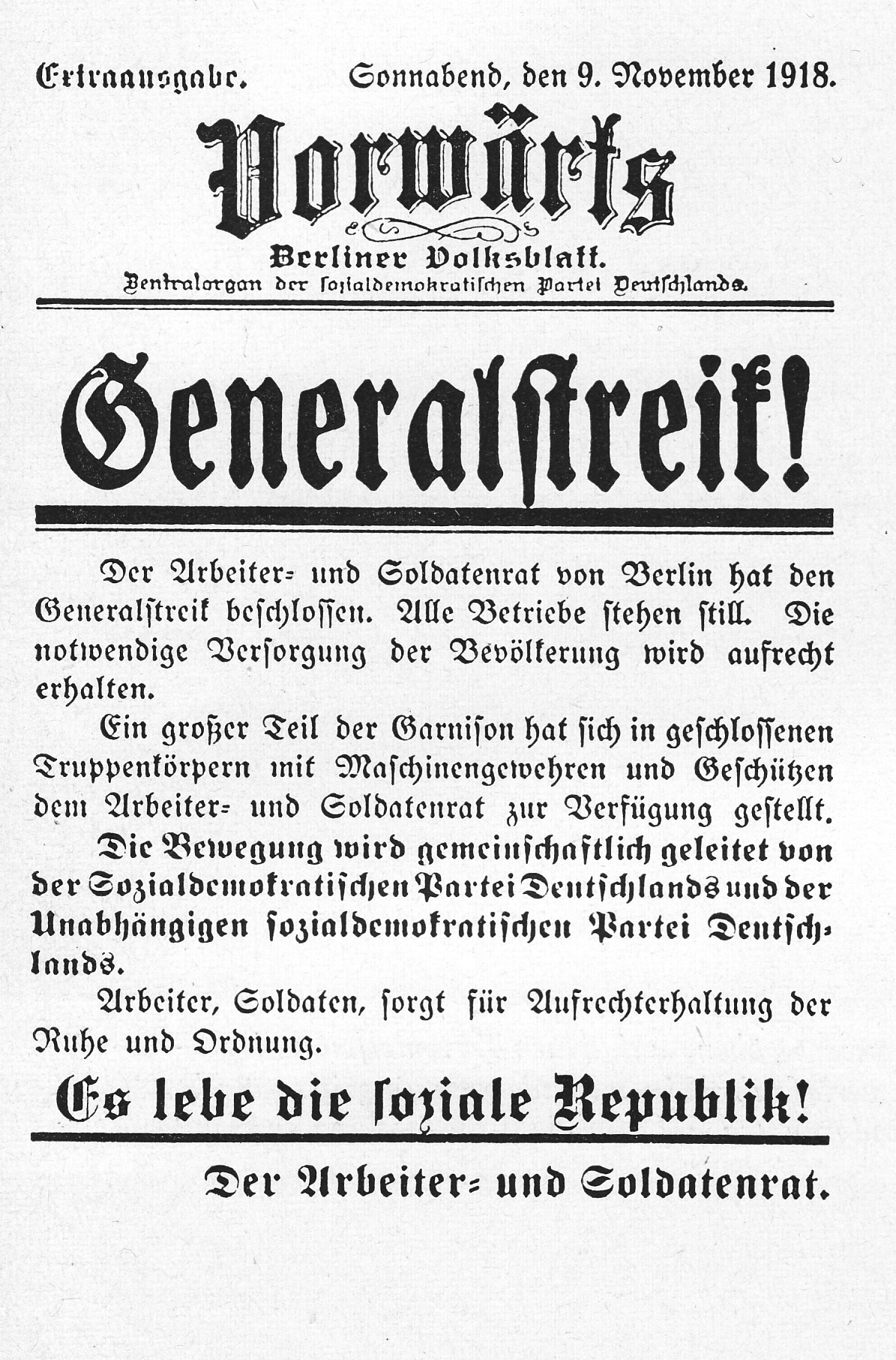 "Vorwärts" (Berlin) central organ of the Social Democratic Party of Germany, issue of 9. November 1918.